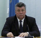 ASTRAKHAN. Astrakhan Region Governor Anatoly Guzhvin at a meeting to discuss the problems of the Caspian region.